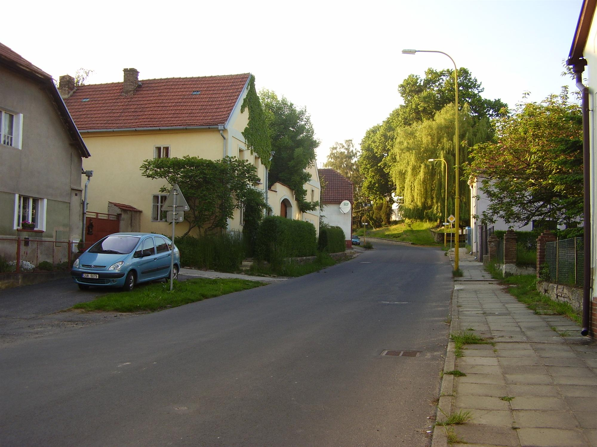 Street in Ctiněves